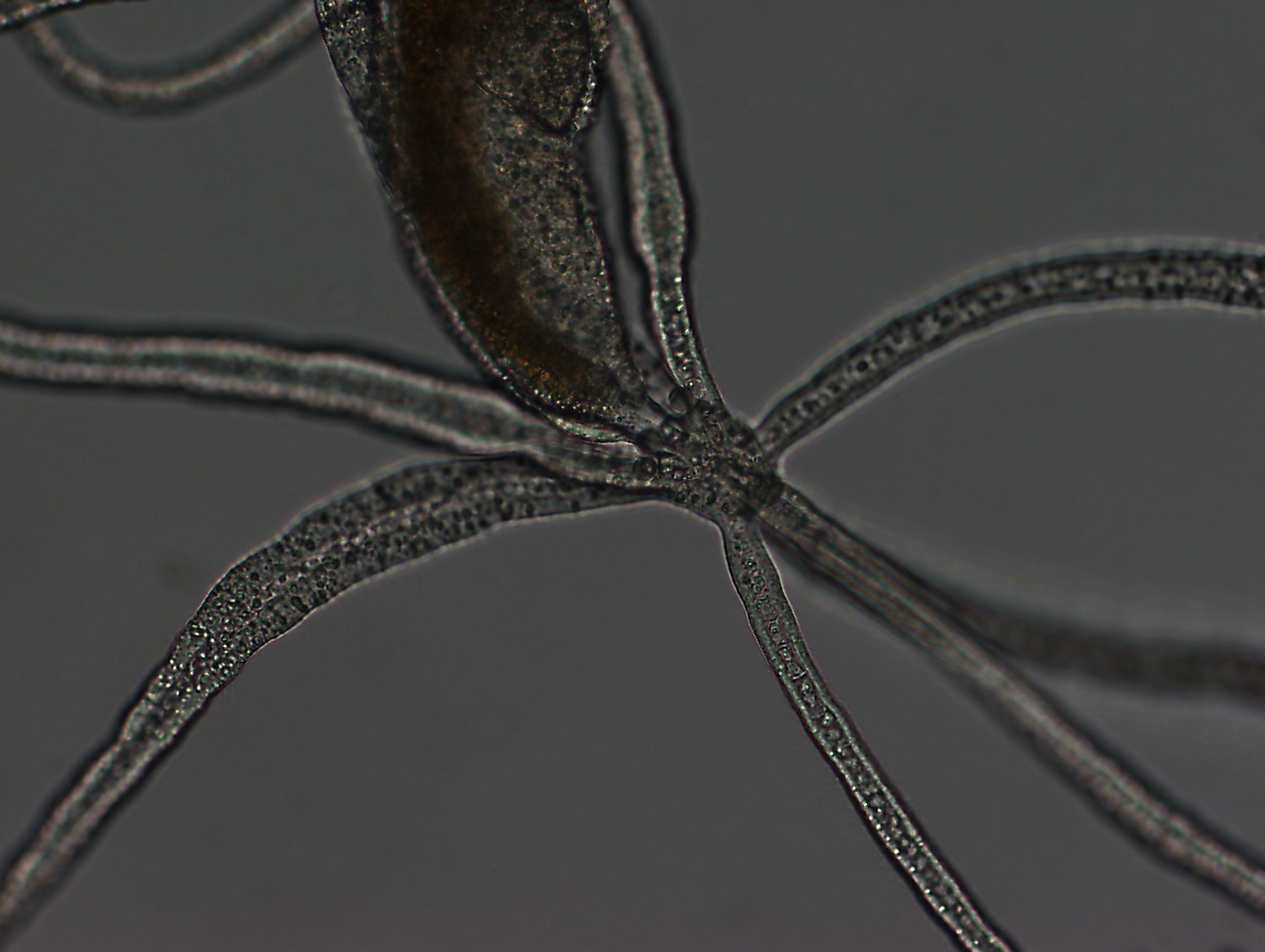 Halammohydrida octopodides01